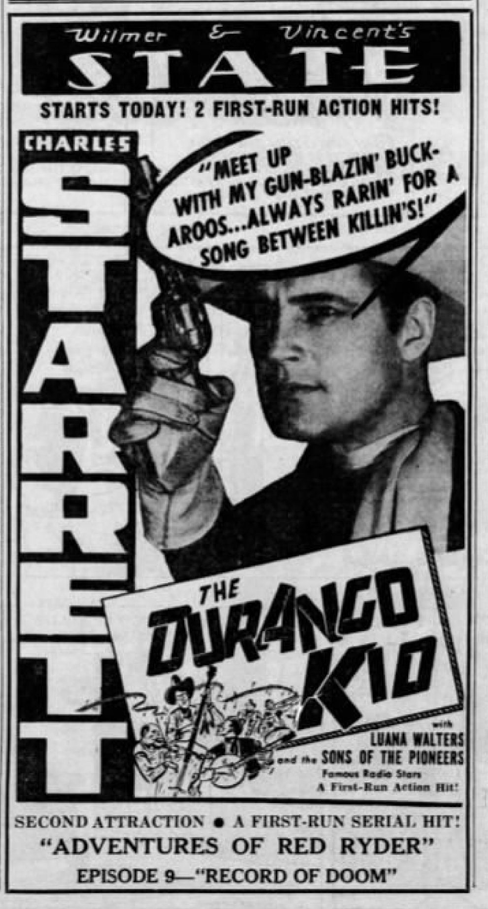 State Theater advertisement for the American western film The Durango Kid (1940) - 3 Oct. 1940 Morning Call, Allentown PA